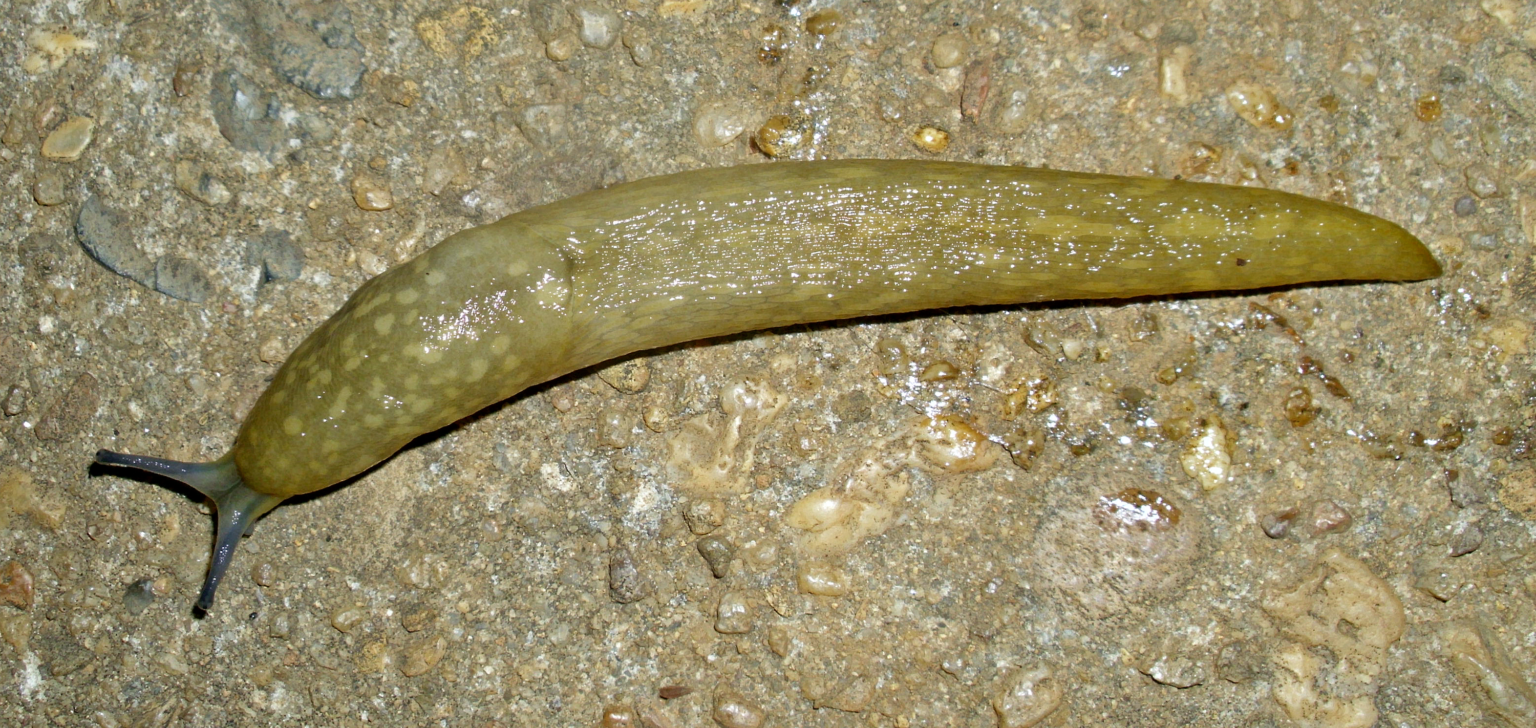 Limax flavus photographed in Wagga Wagga, New South Wales, Australia. Because this photograph concerns privacy since this was taken on a private property, only an approximate location is provided: Wagga Wagga, New South Wales, Australia